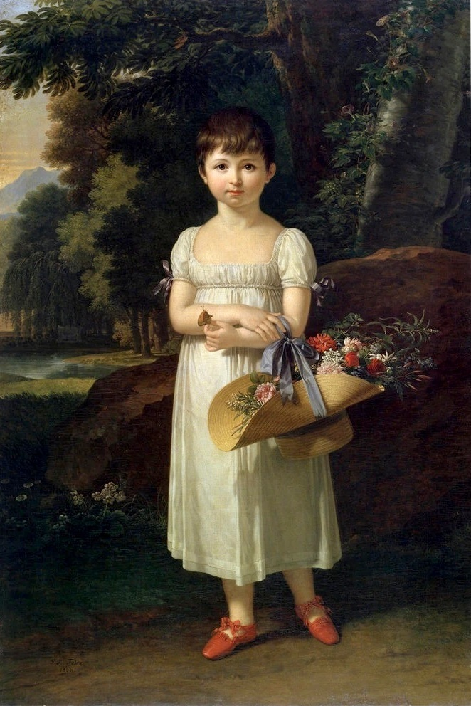 Portrait of Princess Amelia Ogińska (1805-1858), daughter of Prince Michał Kleofas Ogiński and Maria Neri, and a wife of Count Karol Załuski.